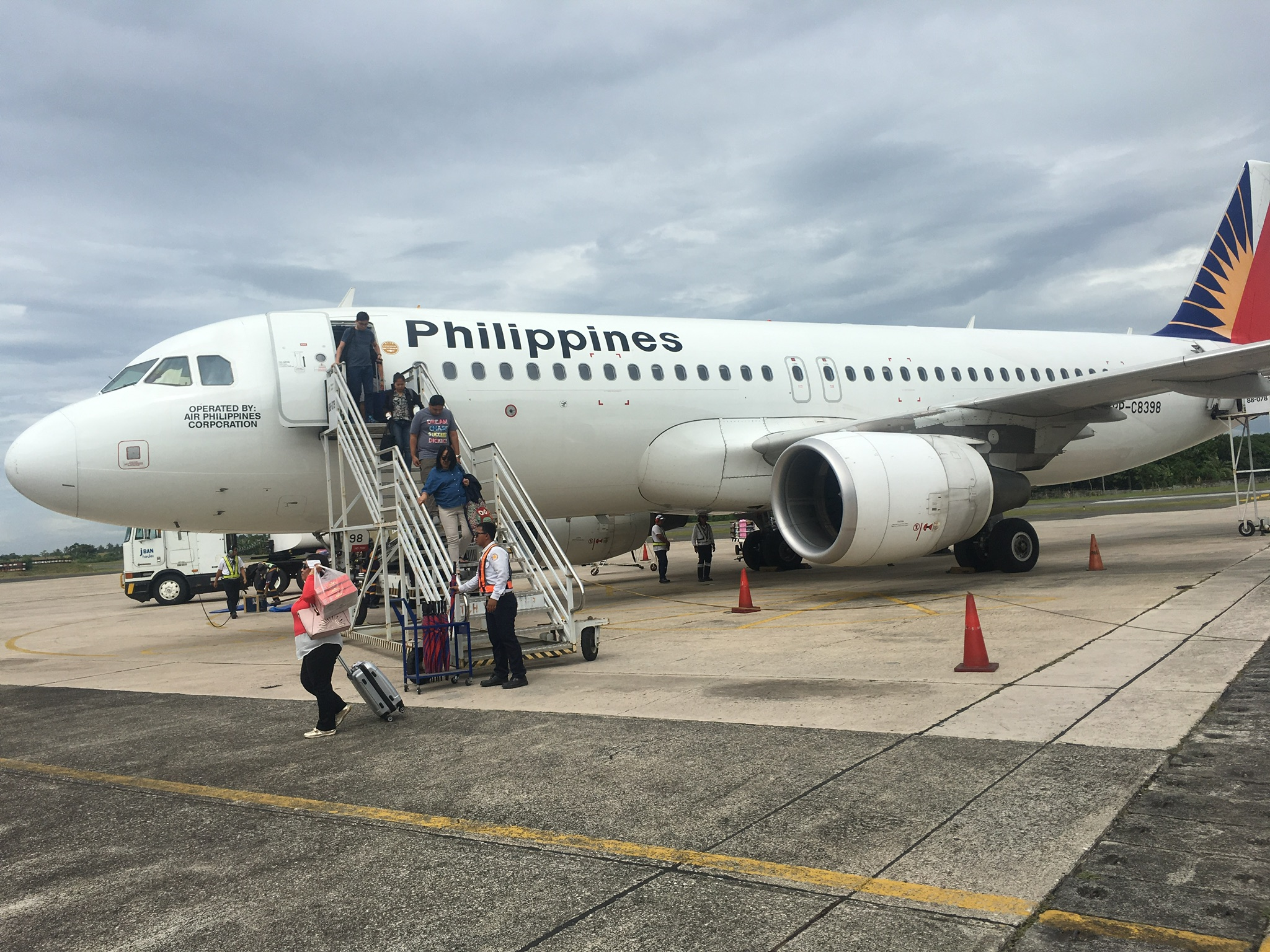 RP 2959 an Airbus 320 of Philippine Airlines landed on Cotabato Airport